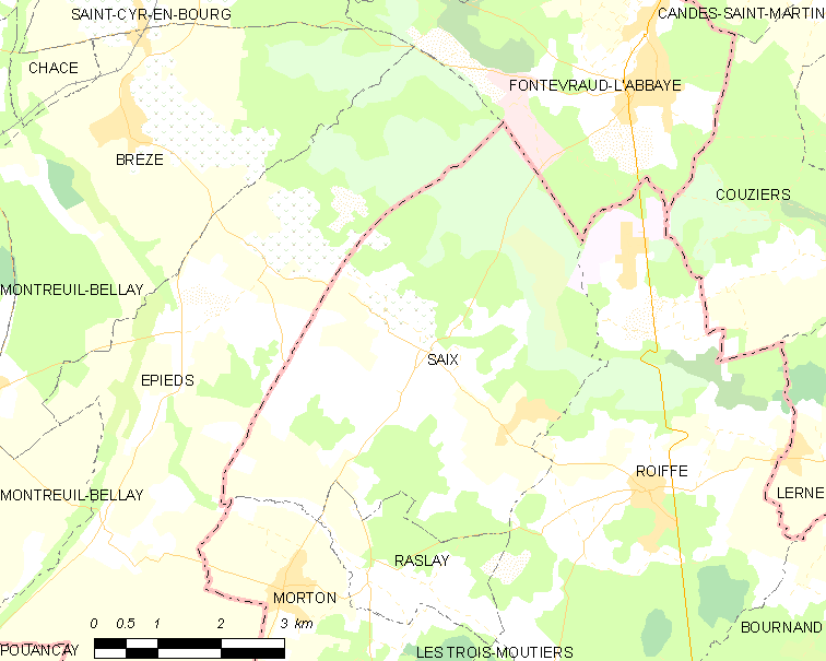 Map of French municipality Saix